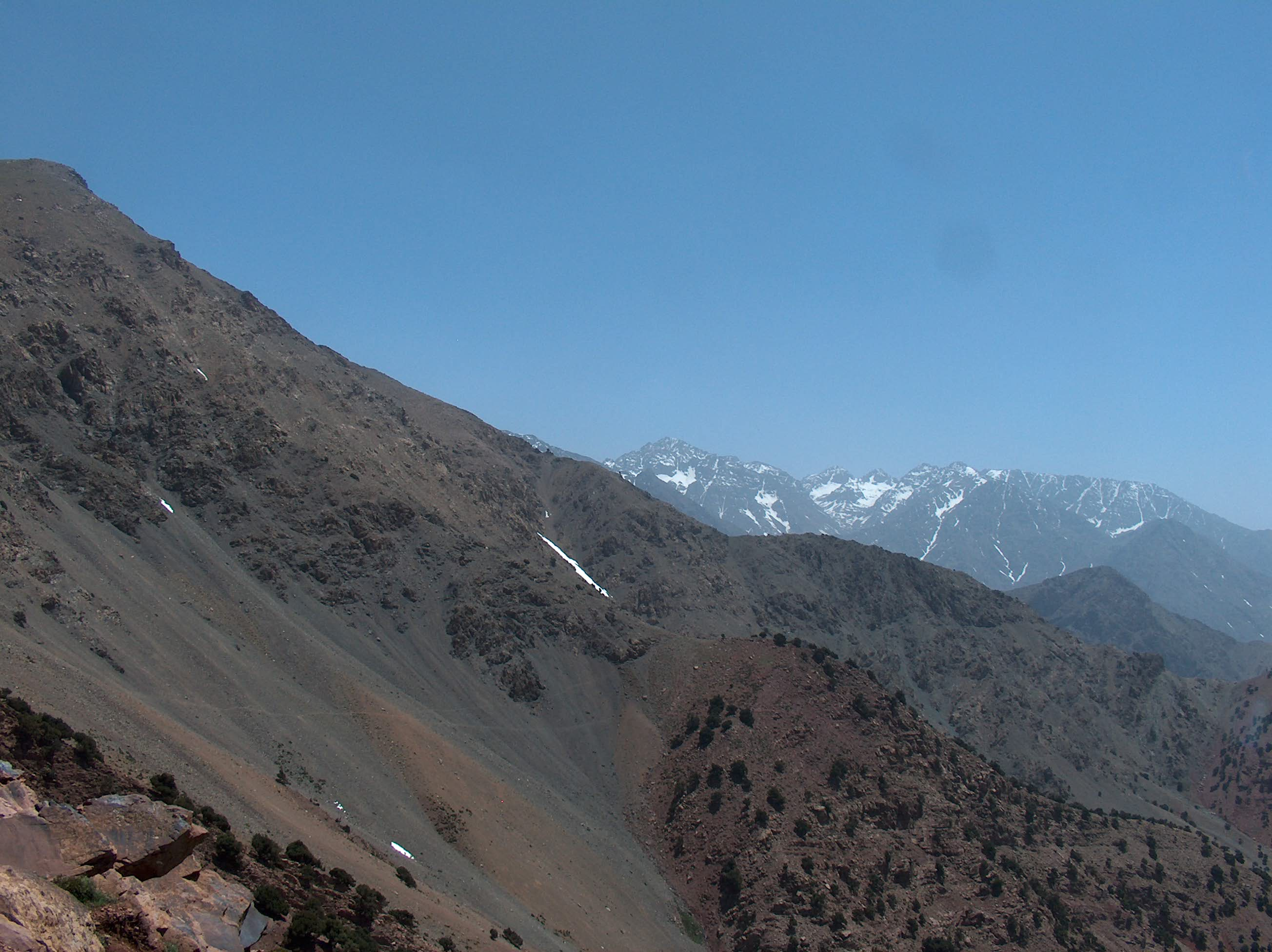 Toubkal peak in the background as seen from the High Atlas